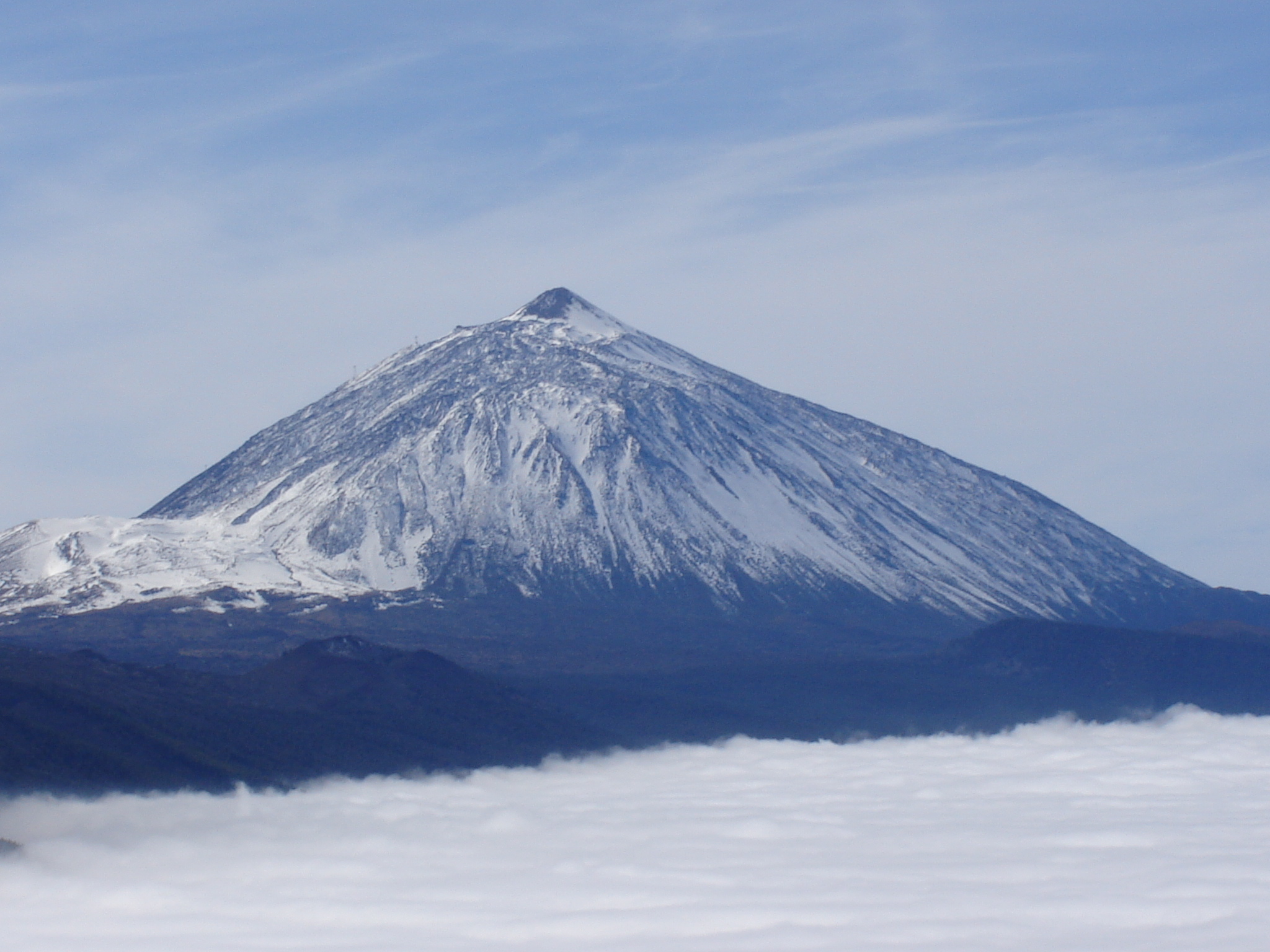 Teide (Peak of Teide, Peak of Tenerife or Pico Teide in spanish) covered with snow & sea clouds. Photo taken from La Esperanza Mount (Tenerife). Canary Islands, Spain.